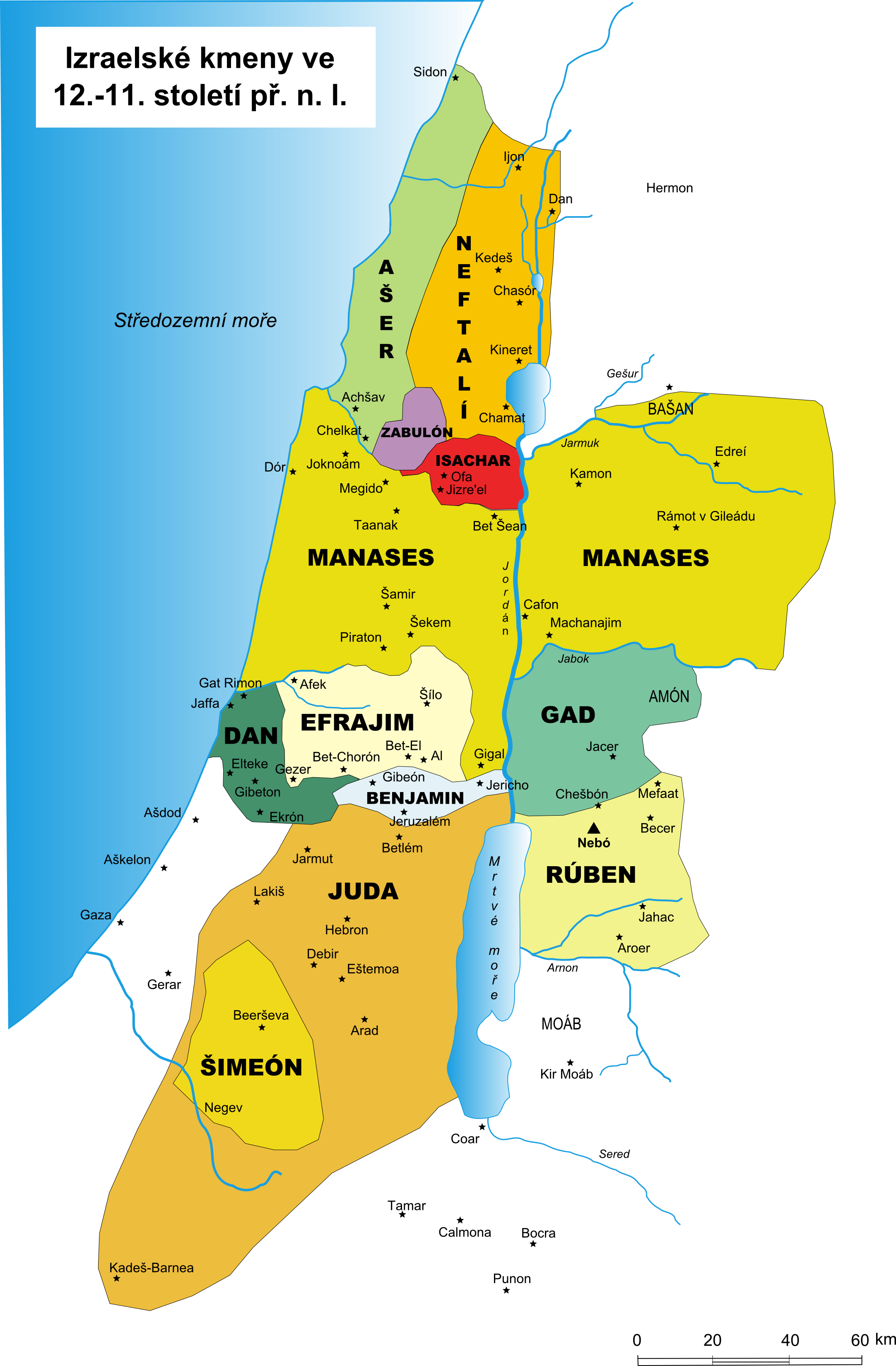 Territories of the 12 tribes of Israel, before the move of Dan to the north. SVG version of Image:12 staemme israels.png done with Inkscape captions translation (to Hebrew) by he:משתמש:ברי"א and he:משתמש:דניאל צבי original license